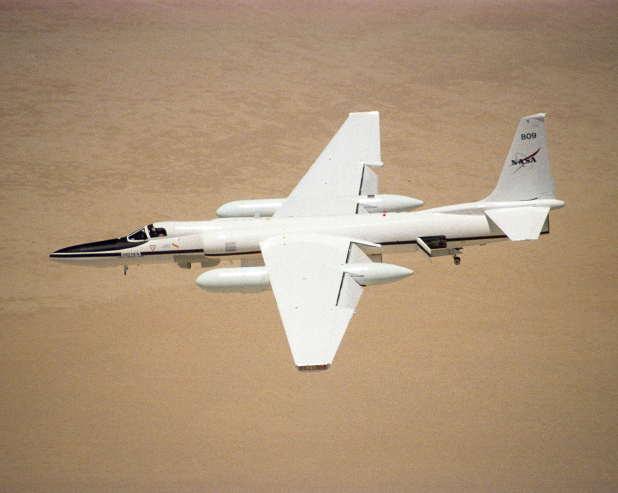 ER-2 tail number 809, is one of two Airborne Science ER-2s used as science platforms by Dryden. The aircraft are platforms for a variety of high-altitude science missions flown over various parts of the world. They are also used for earth science and atmospheric sensor research and development, satellite calibration and data validation. The ER-2s are capable of carrying a maximum payload of 2,600 pounds of experiments in a nose bay, the main equipment bay behind the cockpit, two wing-mounted superpods and small underbody and trailing edges. Most ER-2 missions last about six hours with ranges of about 2,200 nautical miles. The aircraft typically fly at altitudes above 65,000 feet. On November 19, 1998, the ER-2 set a world record for medium weight aircraft reaching an altitude of 68,700 feet. The aircraft is 63 feet long, with a wingspan of 104 feet. The top of the vertical tail is 16 feet above ground when the aircraft is on the bicycle-type landing gear. Cruising speeds are 410 knots, or 467 miles per hour, at altitude. A single General Electric F118 turbofan engine rated at 17,000 pounds thrust powers the ER-2.